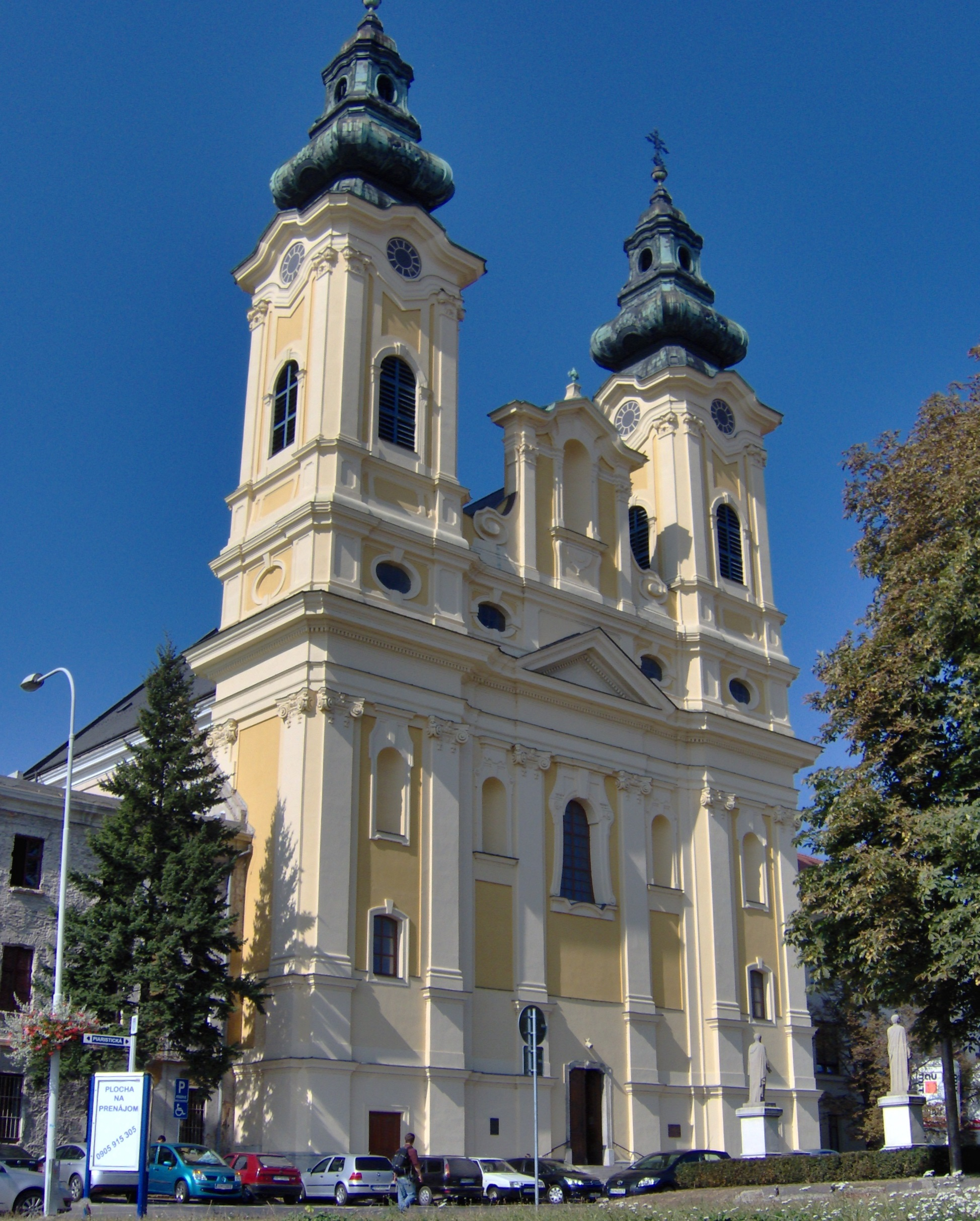 St.Ladislaus church in Nitra